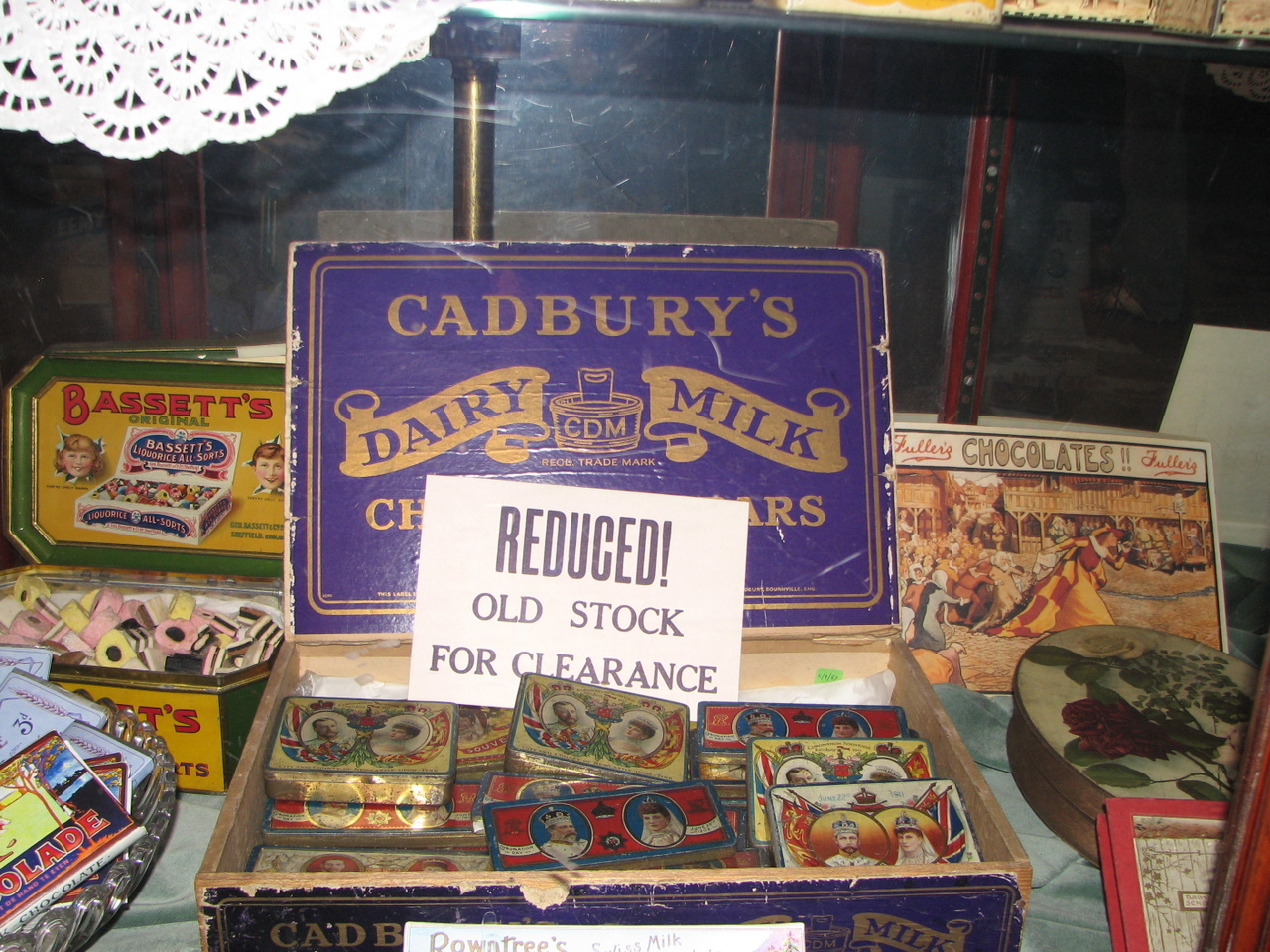 Beamish Museum, County Durham, England. These are some of the many sweets available inside Jubilee Confectioners in Town - in this case tins of Cadbury's Dairy Milk chocolate, reduced to clear.